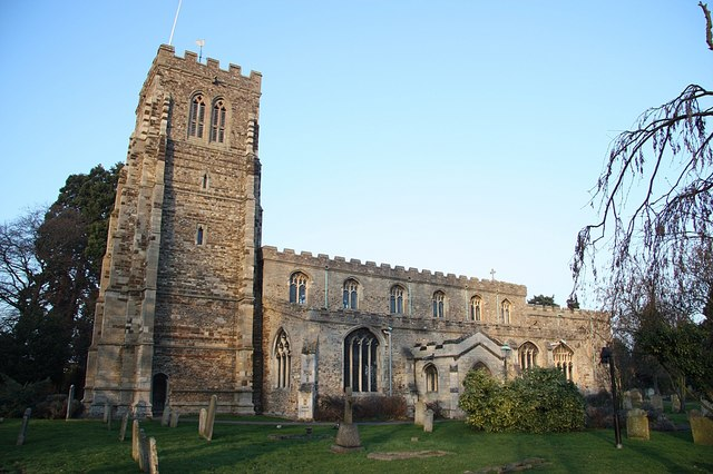 St.Mary's church Decorated and Perpendicular church, gutted by fire in 1930 and rebuilt by Sir Albert Richardson